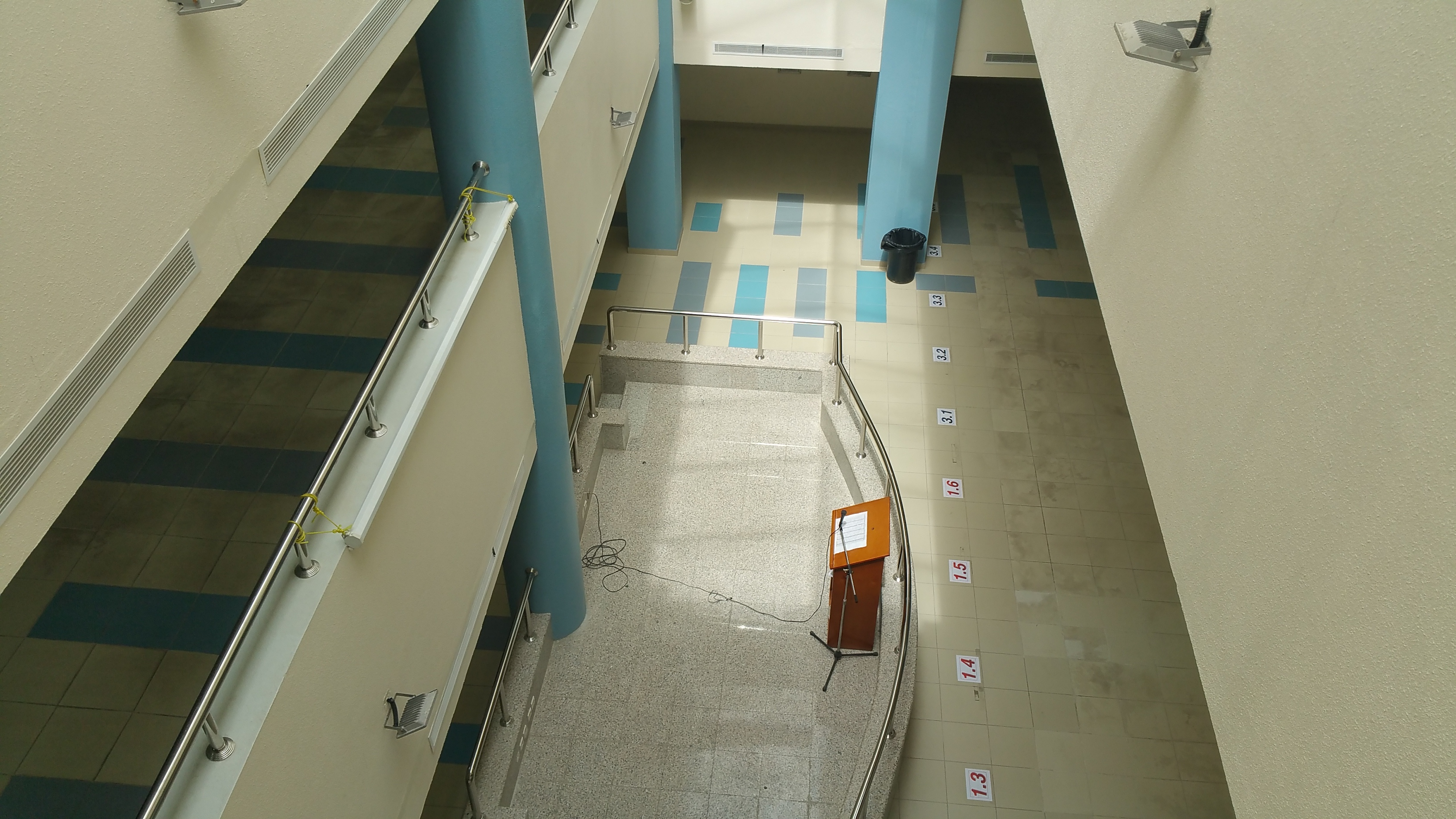 High school in Saudi Arabic, Qatif.